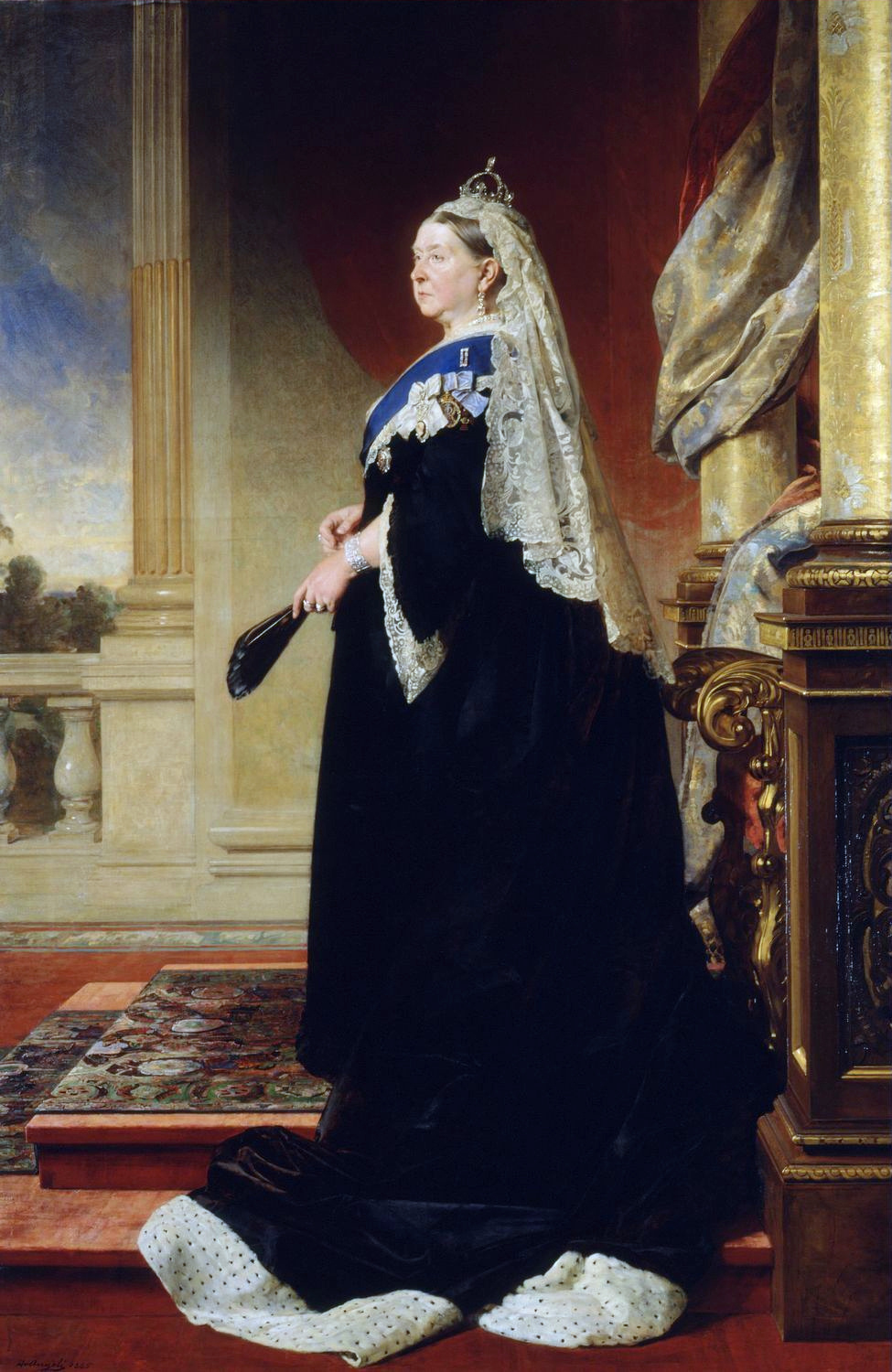 Portrait of Queen Victoria as widow